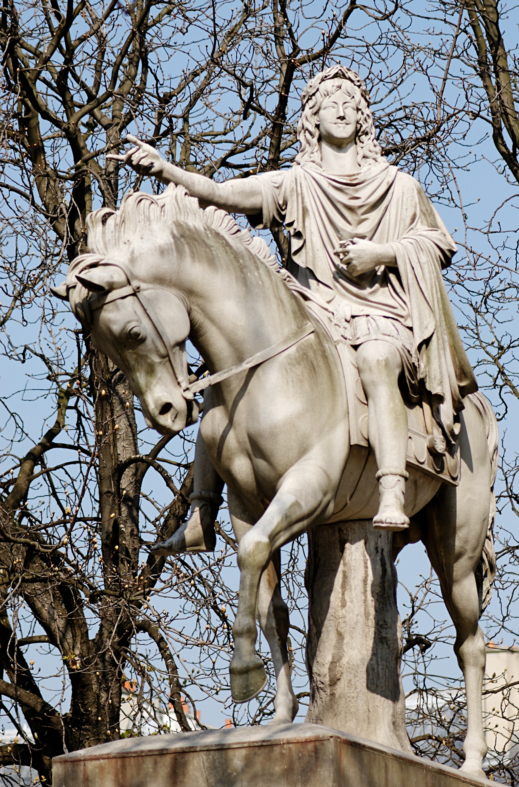 Equestrian statue of Louis XIII of France. Marble, begun in 1816 by Louis Dupaty, completed in 1821 by Jean-Pierre Cortot. Place des Vosges, Paris.